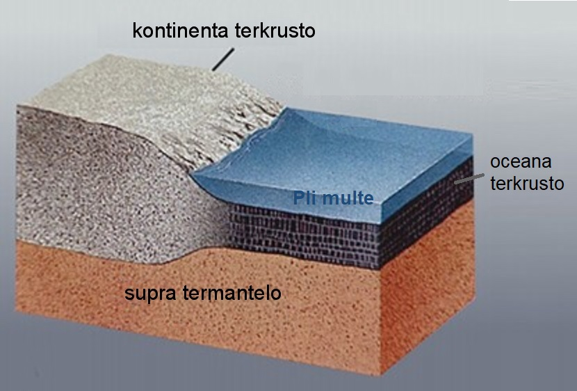 Graphic of the earth's ontinental and oceanic crust